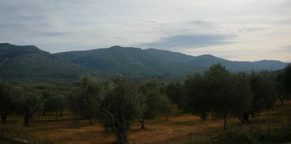 Serra de la Vall d'Àngel mountain chain seen from the east